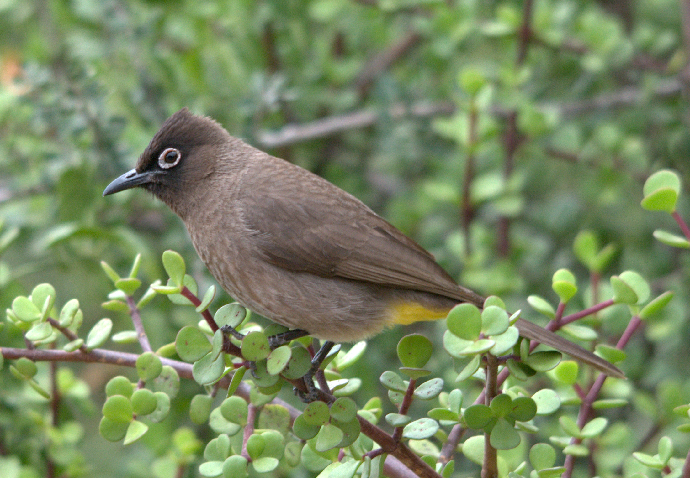 An adult Cape Bulbul (Pycnonotus capensis) at Addo Elephant National Park, Eastern Cape, South Africa.